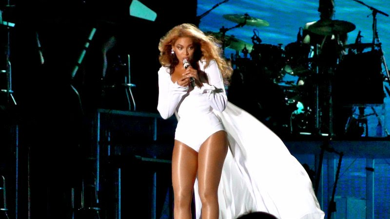 Beyoncé in the Brazil.